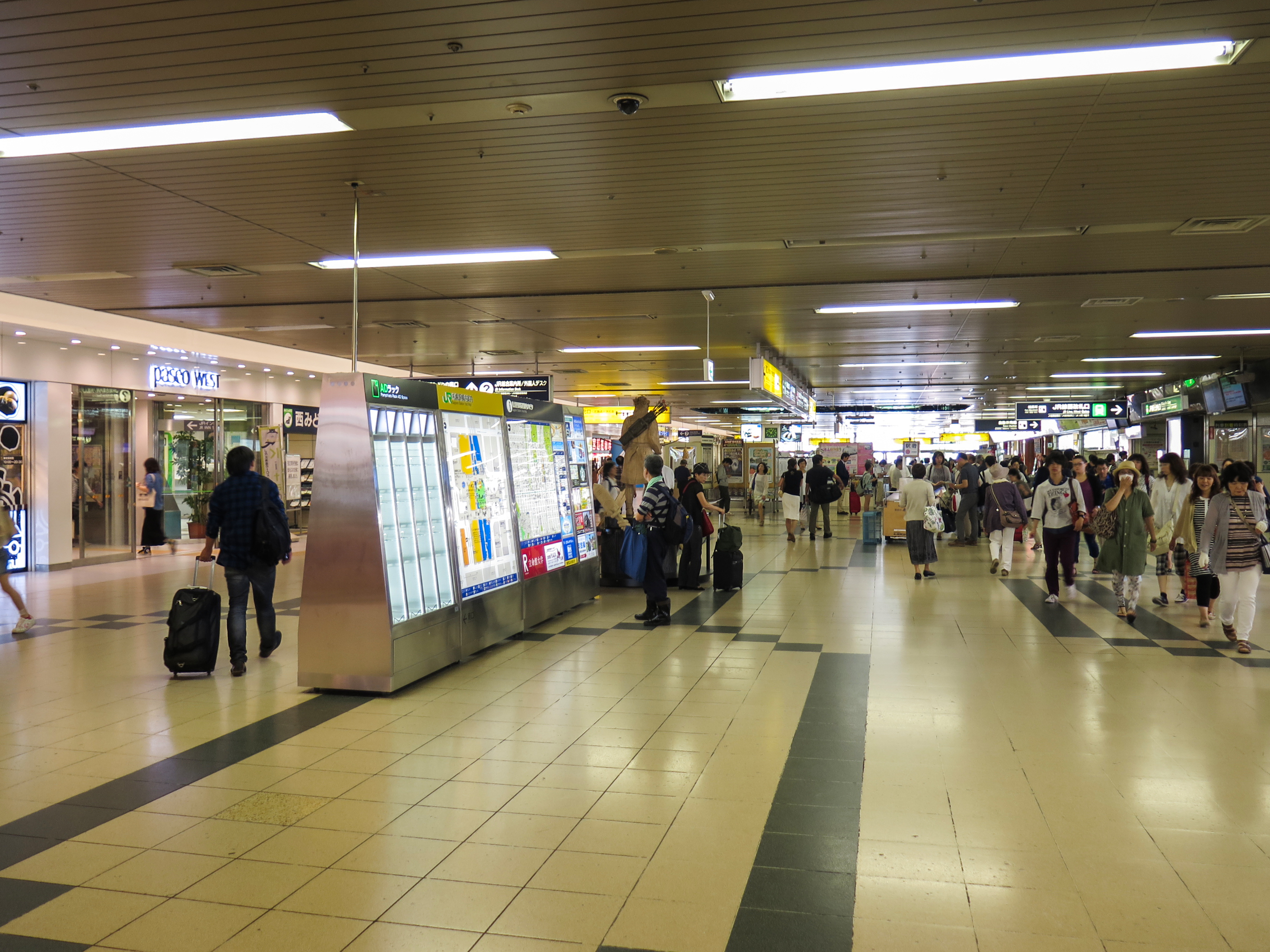 Sapporo Station West Concourse